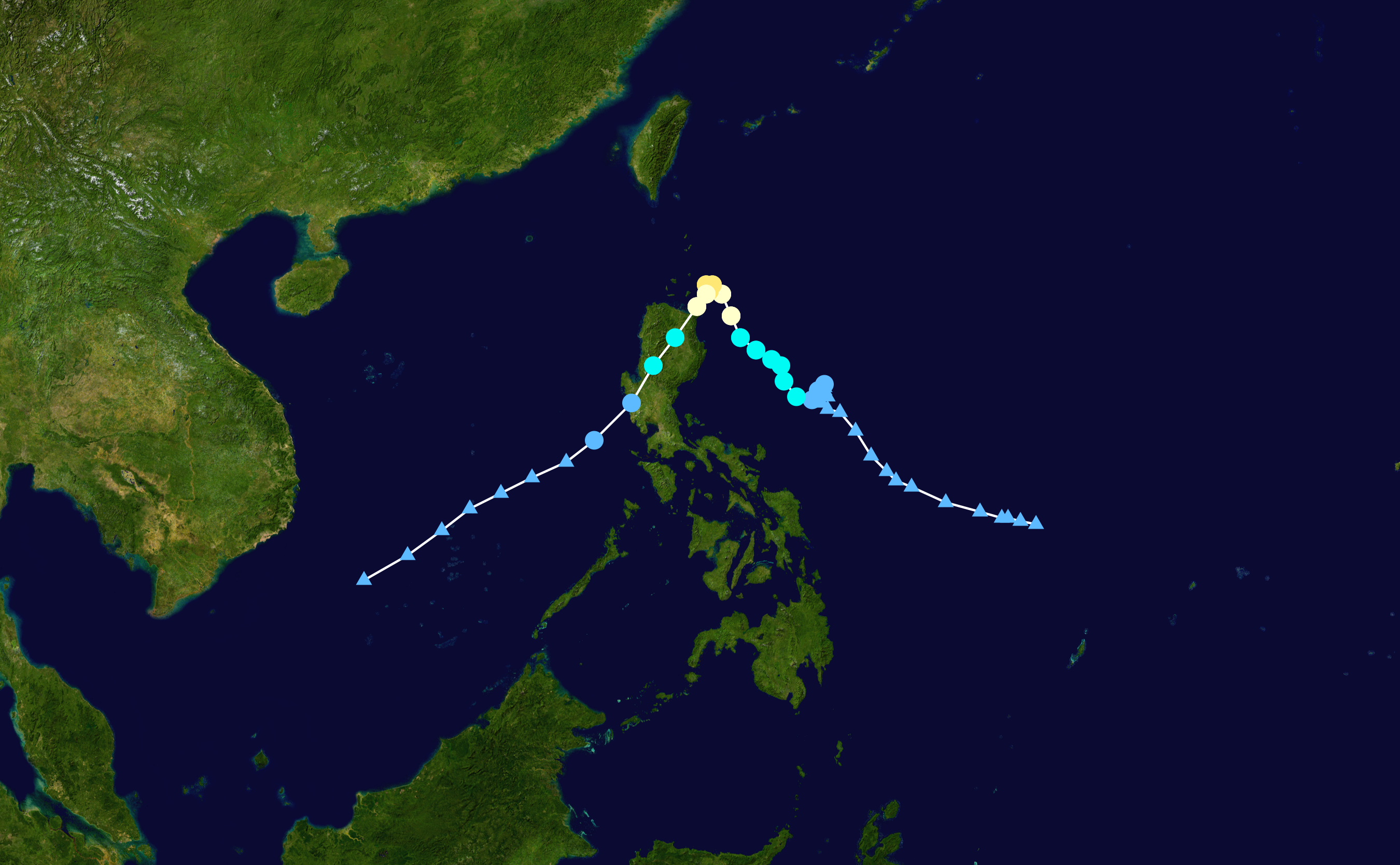 Track map of Typhoon Kalmaegi of the 2019 Pacific typhoon season. The points show the location of the storm at 6-hour intervals. The colour represents the storm's maximum sustained wind speeds as classified in the Saffir–Simpson scale (see below), and the shape of the data points represent the nature of the storm, according to the legend below. Saffir–Simpson scale Tropical depression≤38 mph≤62 km/h Category 3111–129 mph178–208 km/h Tropical storm39–73 mph63–118 km/h Category 4130–156 mph209–251 km/h Category 174–95 mph119–153 km/h Category 5≥157 mph≥252 km/h Category 296–110 mph154–177 km/h Unknown Storm type Tropical cyclone Subtropical cyclone Extratropical cyclone / Remnant low / Tropical disturbance / Monsoon depression